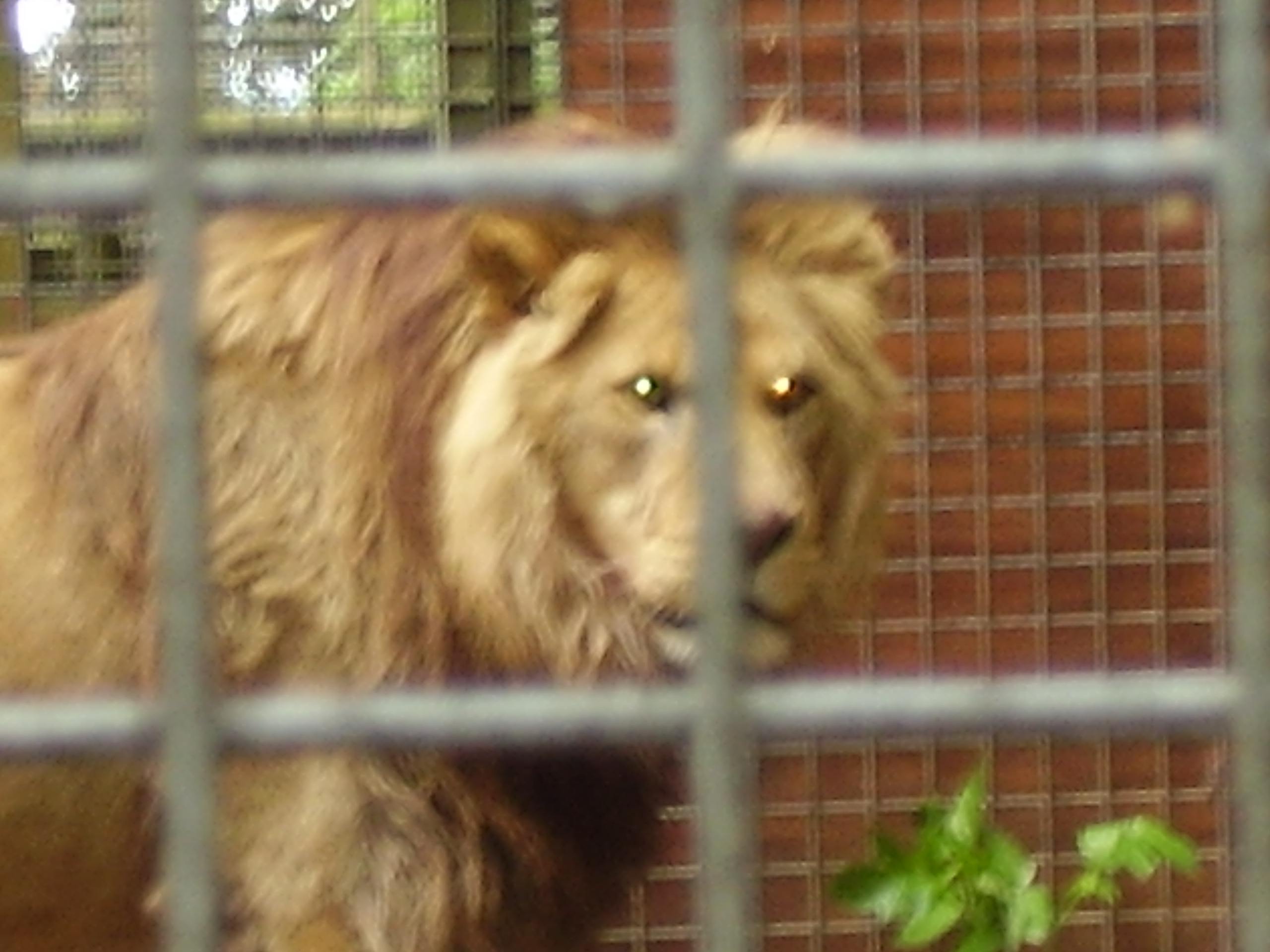 URL:Joshua O photos The English wikipedia says: "Possible Barbary lion from Port Lympne Zoo".